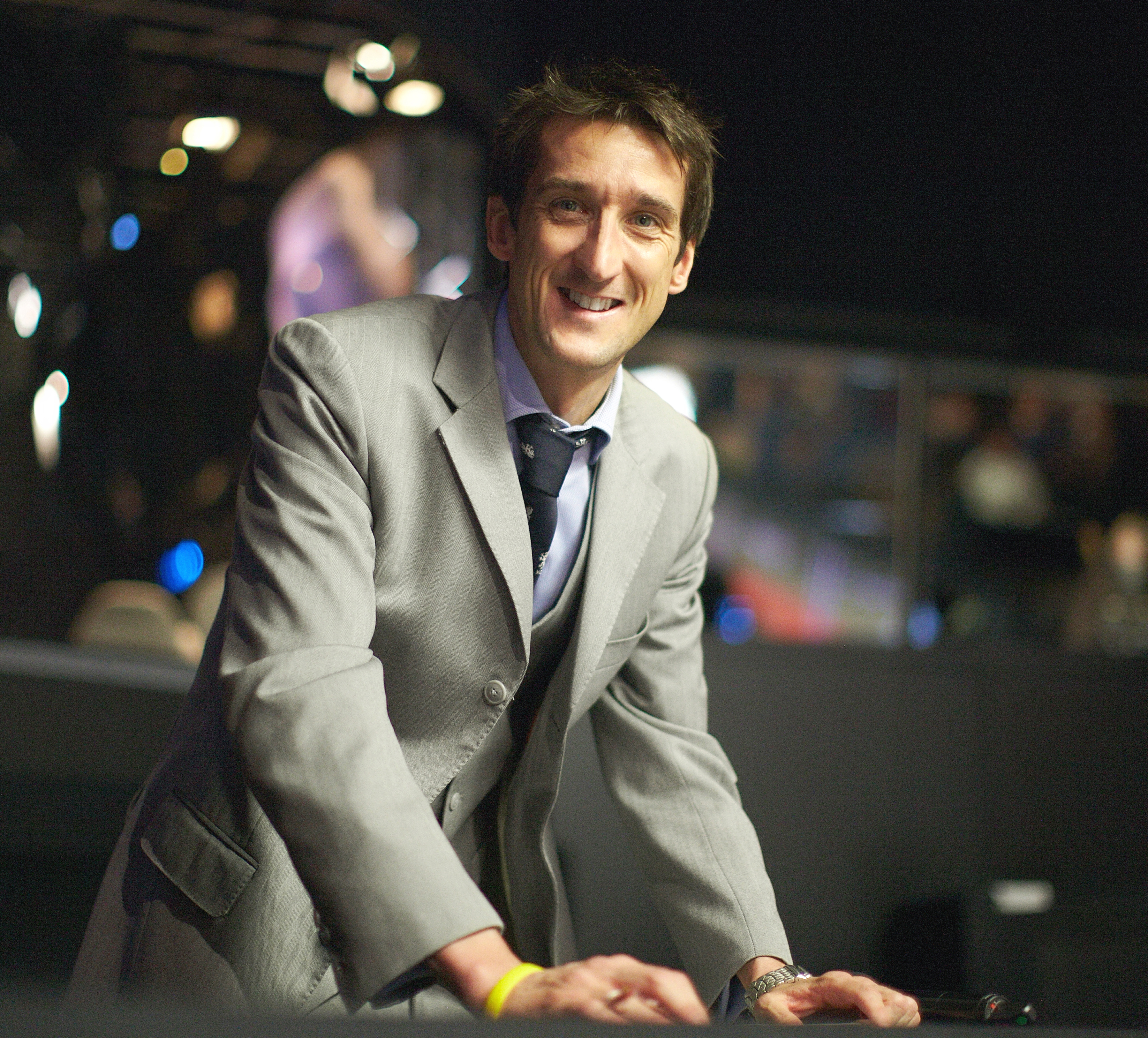 Rob Walker during 2012 Masters in London